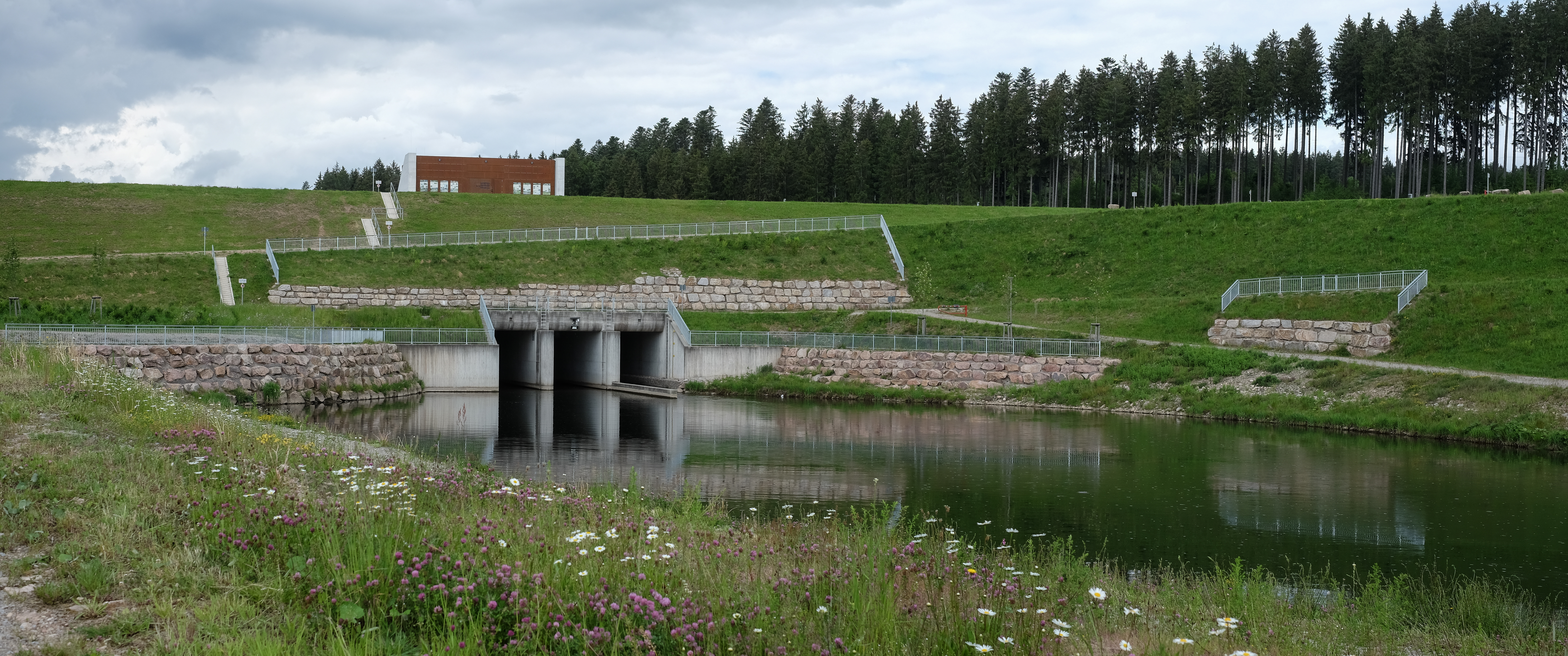 Dry retention pond Wolterdingen, Donaueschingen-Wolterdingen, district Schwarzwald-Baar-Kreis, Baden-Württemberg, Germany